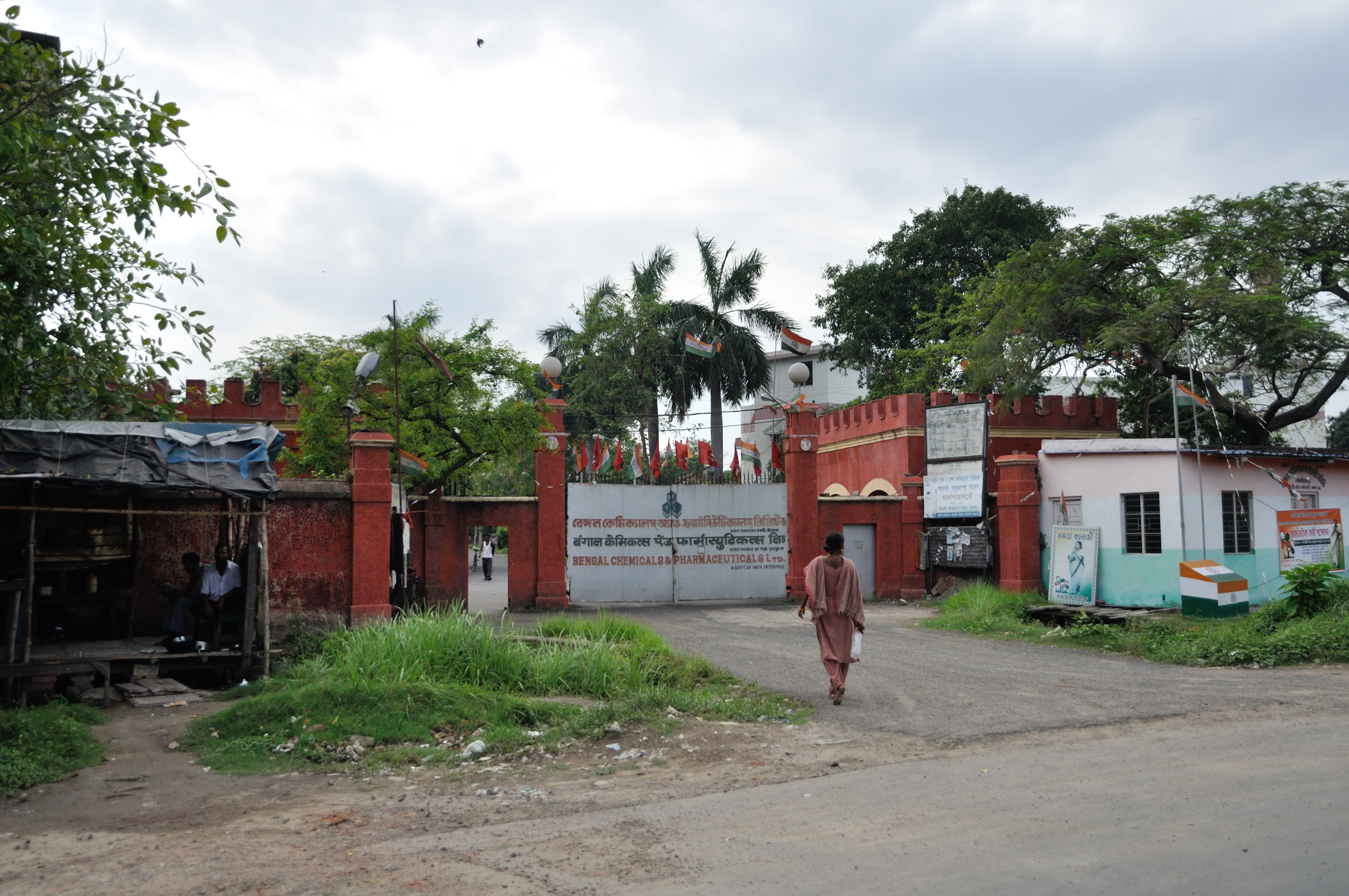 Photographed in West Bengal.